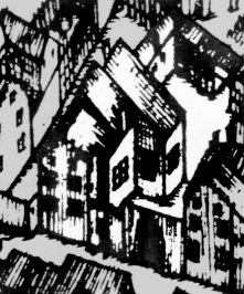 House of Gerardus Mercator at Duisburg by Johannes Corputius, 1566